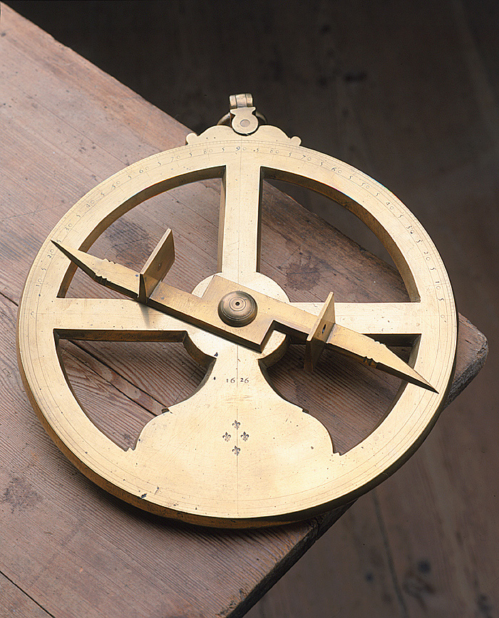 Sea astrolabe, dated 1626.